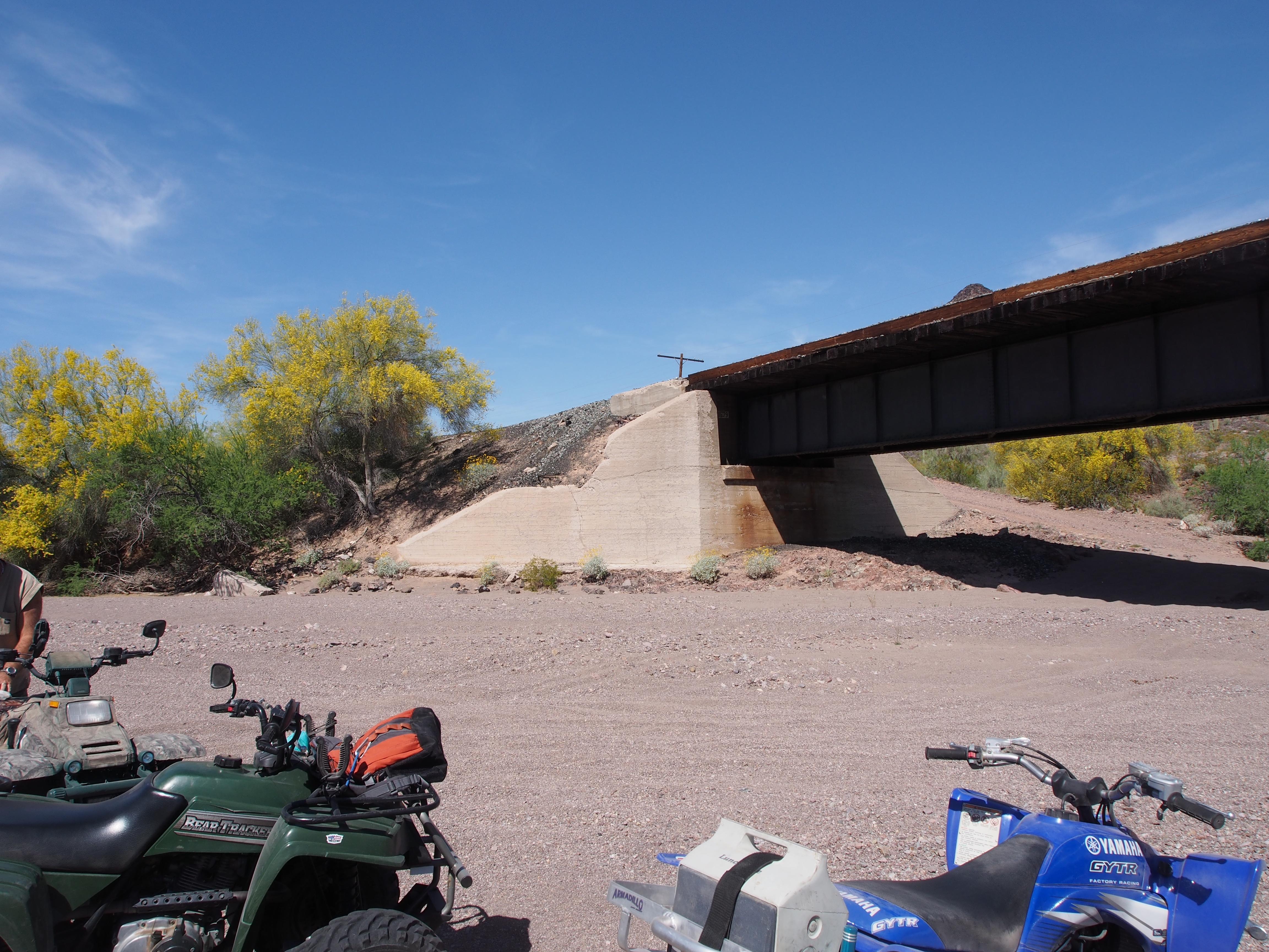 The large gouge in the concrete embankment was made by the baggage car of Train 1 when it derailed here October 9, 1995.